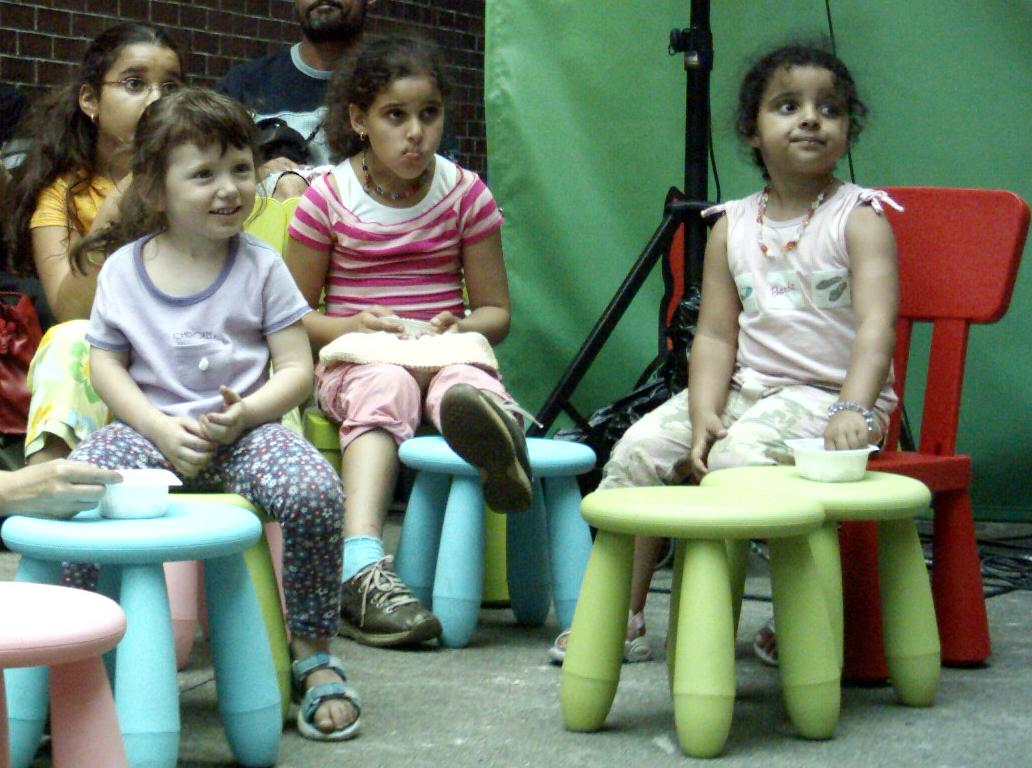 Attention of children